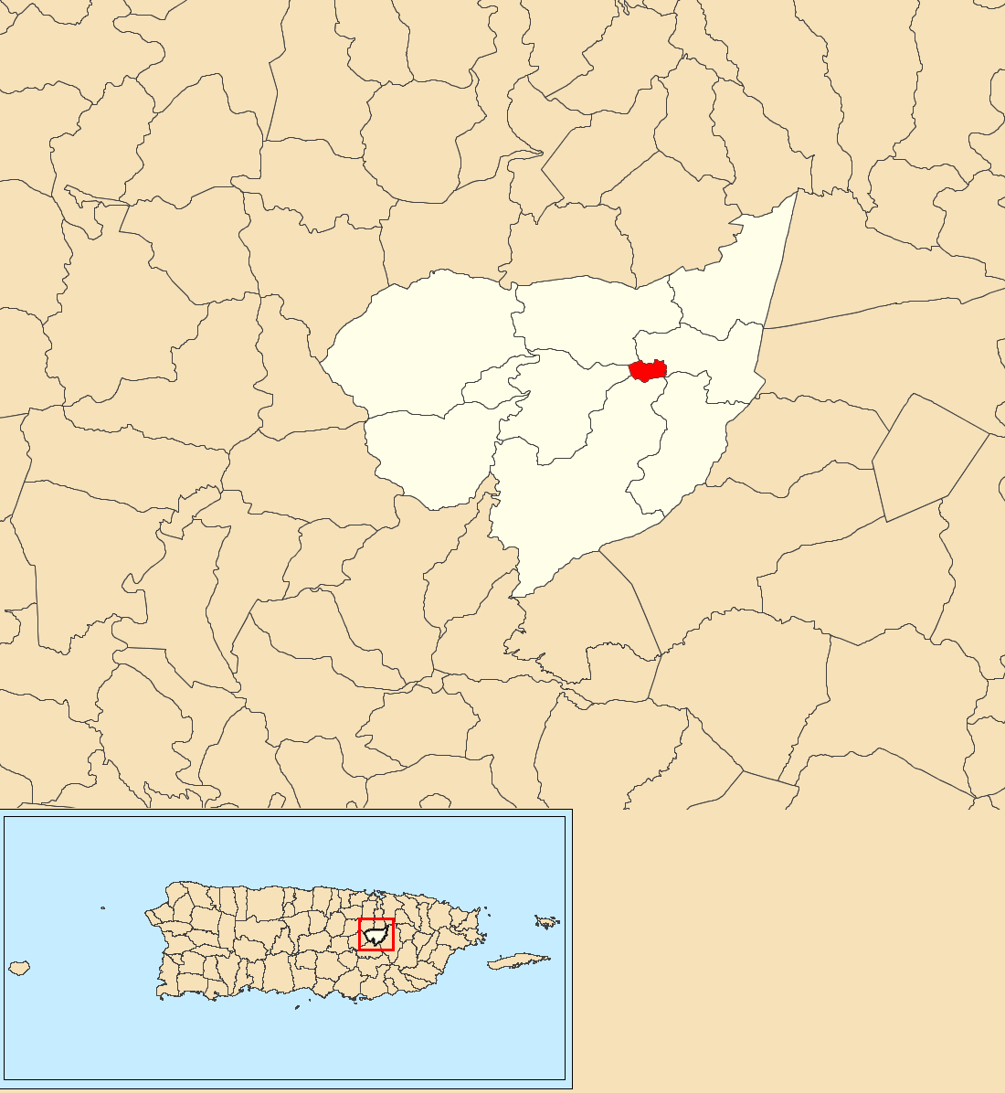 Aguas Buenas barrio-pueblo, Aguas Buenas, Puerto Rico locator map